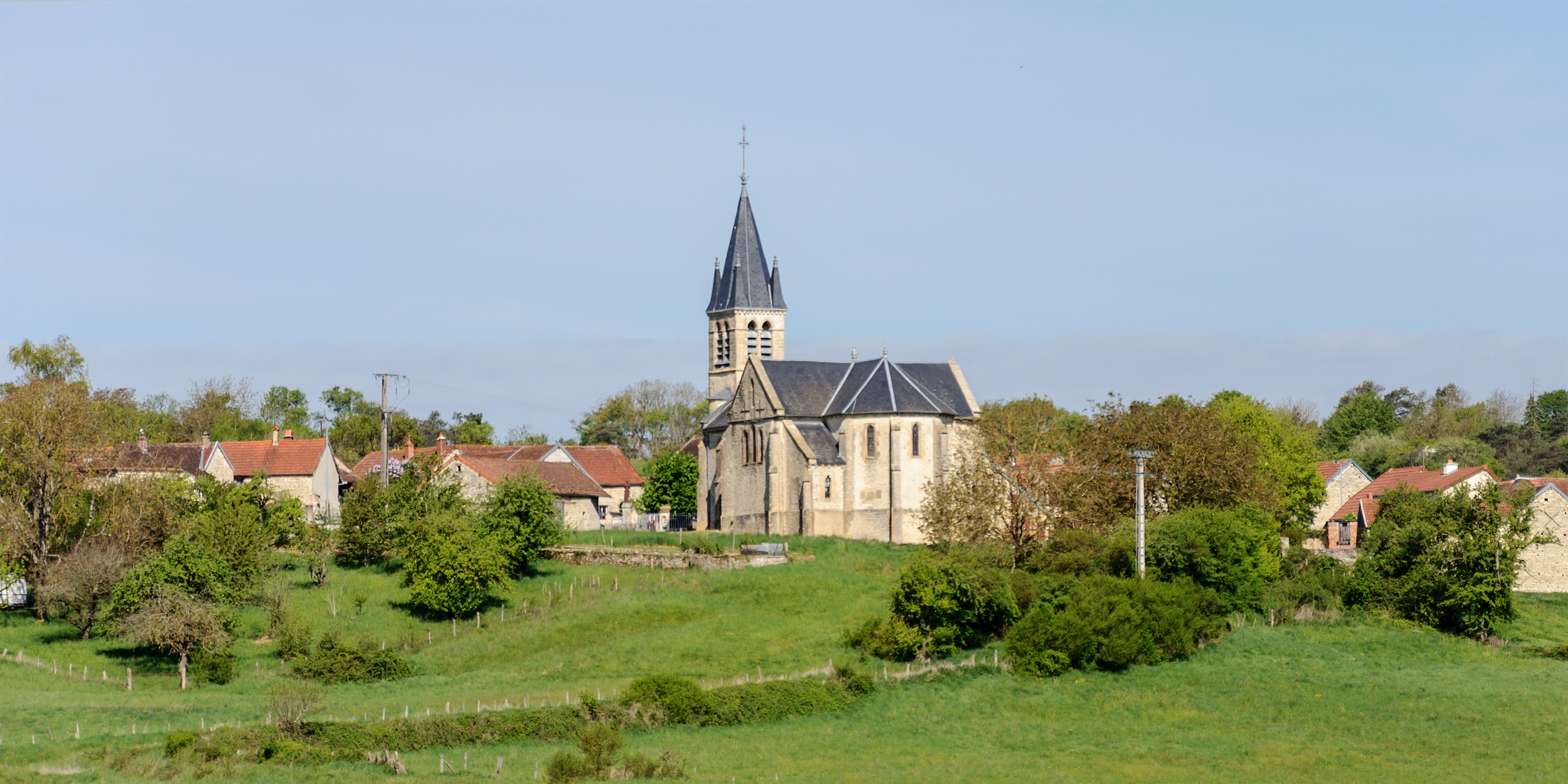 Sennevoy-le-Haut, Yonne department, Burgundy, France